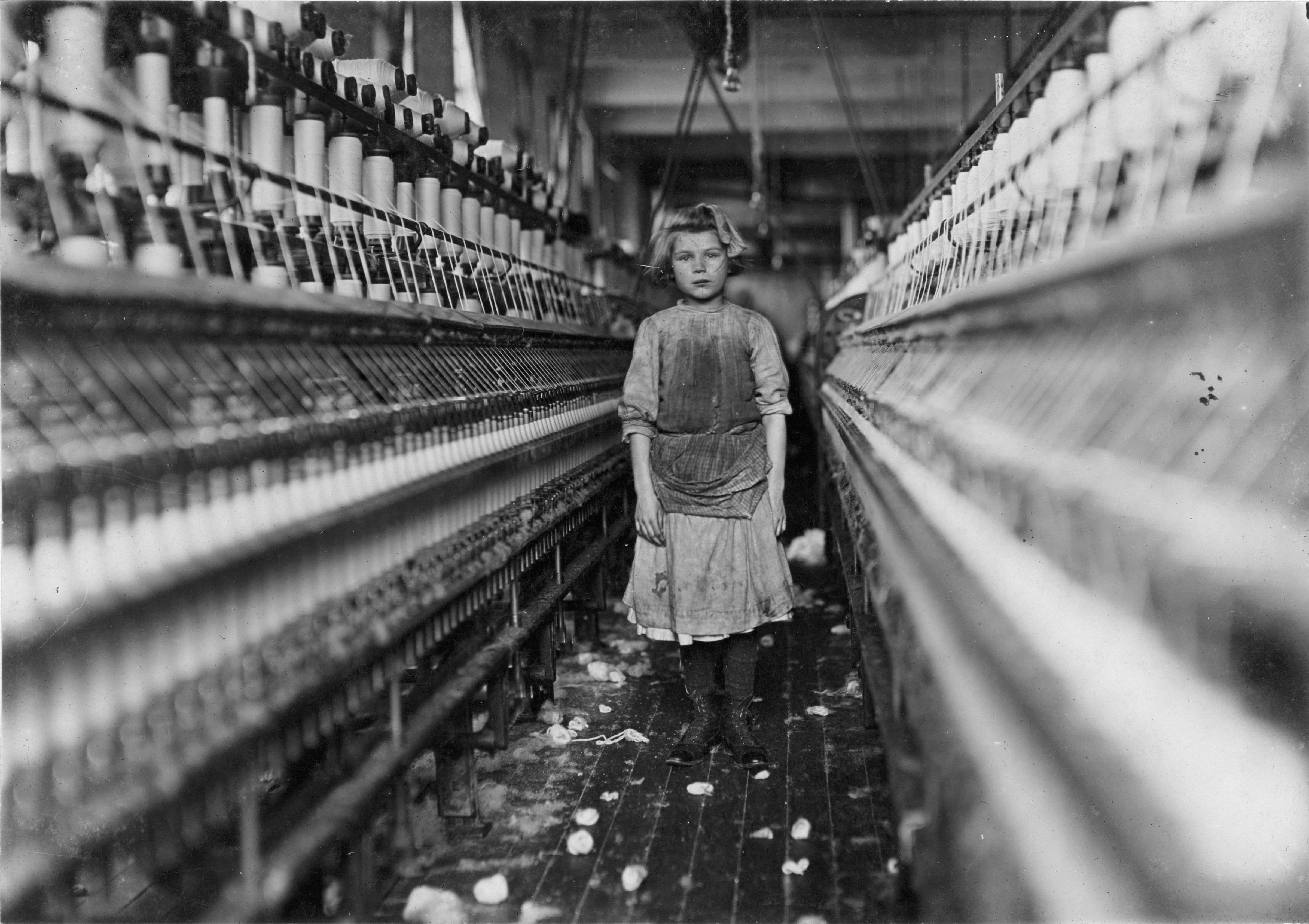 Little spinner in Globe Cotton Mill, Augusta, Georgia. Overseer said she was regularly employed. Location: Augusta, Georgia. Photograph by Lewis Wickes Hine, January 1909.